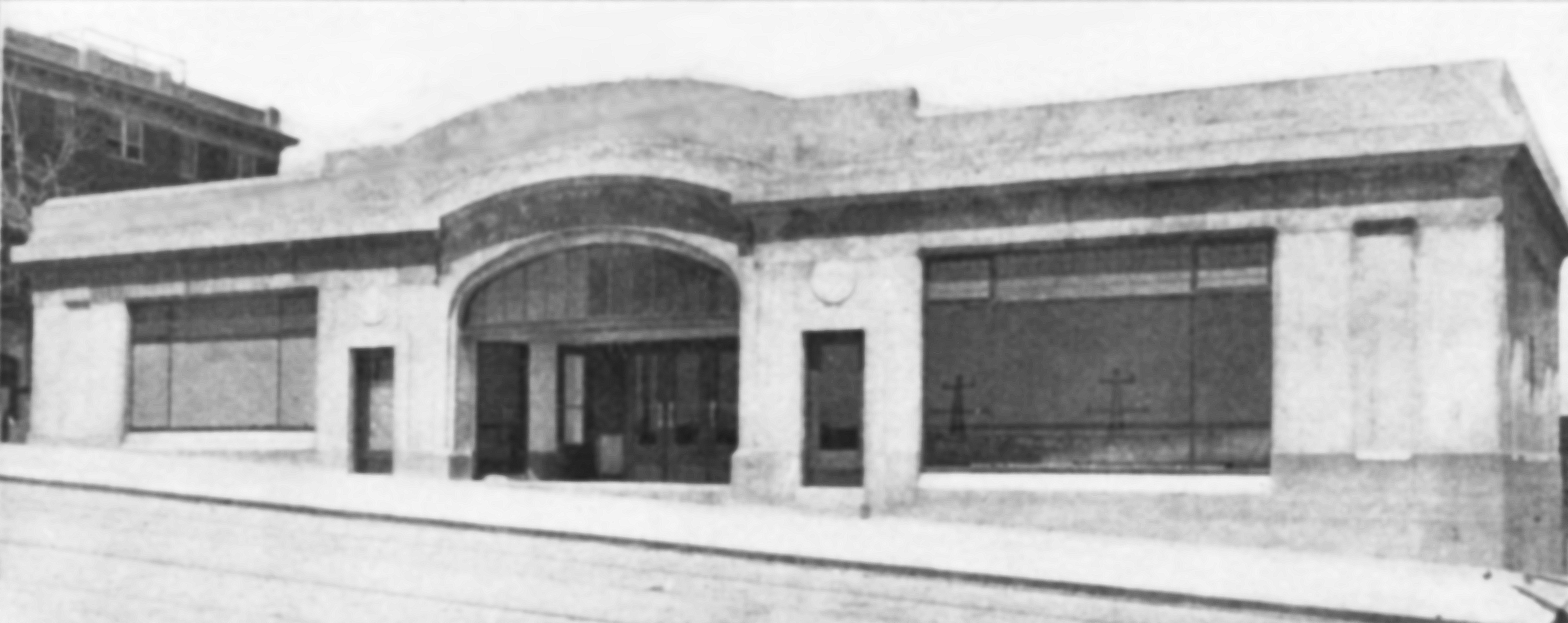 Typical station house of a rather unimportant station on the New York, Westchester and Boston Railway.